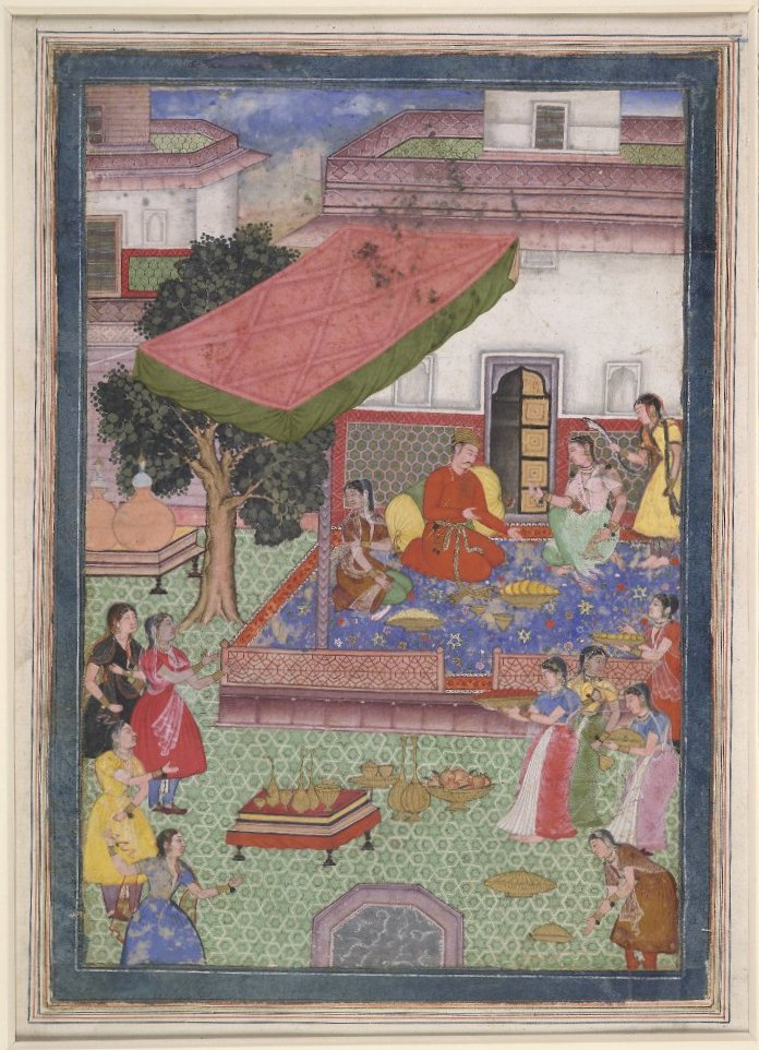 This illustration, from the Razmnameh, depicts a prince engaged in conversation underneath a terrace within the women's quarters. Three women rest under the canapy, while nine women surround the terrace in the courtyard, carrying food and various offerings. In the distance other buildings from the complex are seen. Ornate tilling comprises both the floor and buildings' exterior. No text. Painted in opaque watercolour on paper.